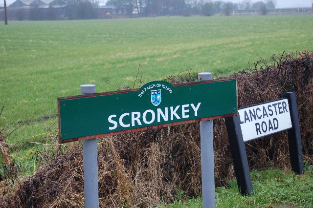 Scronkey. A very unusual named Hamlet.